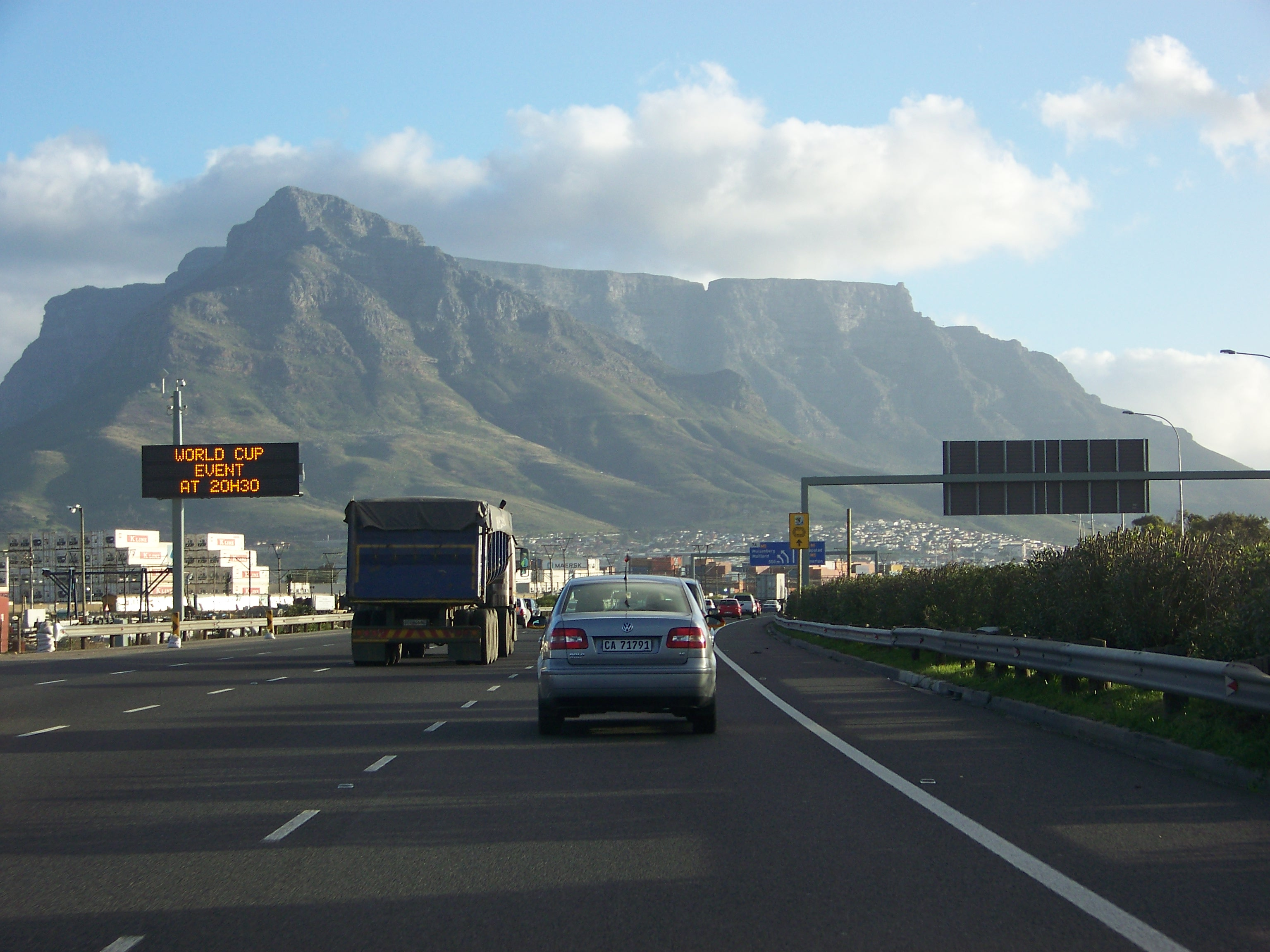 N1 Freeway as it enters Cape Town